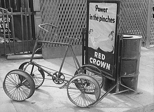 Quadricycle used on narrow gauge railroad. In the early days this took the place of the more modern handcar